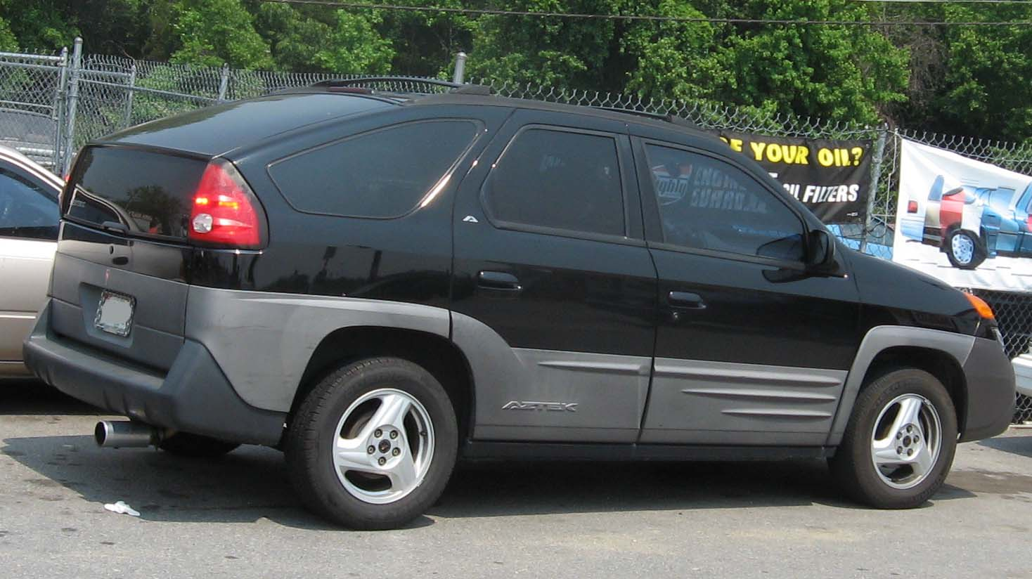 2001 Pontiac Aztek photographed in USA.